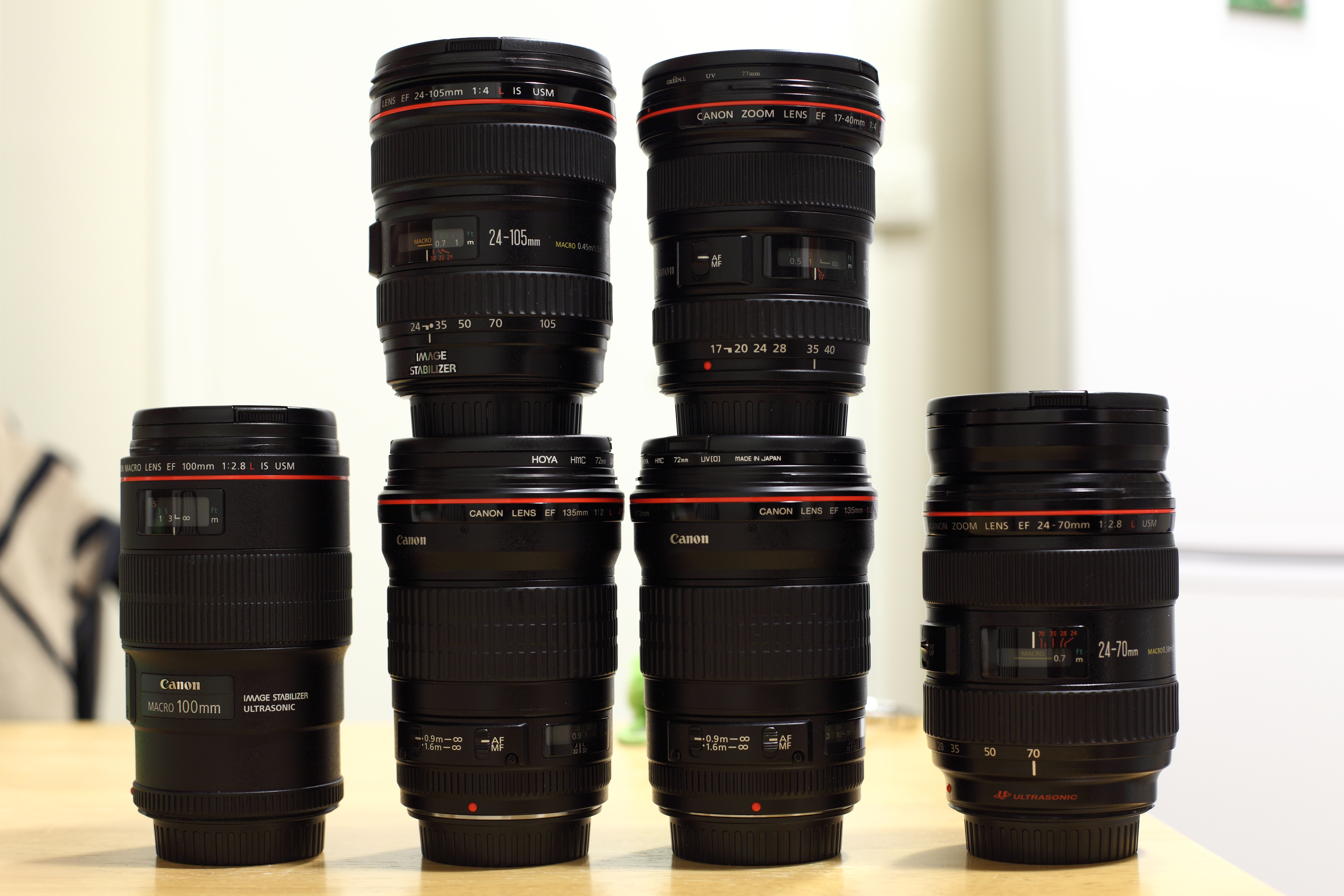 A selection of photographic lenses in the Canon "L" series. Top: EF 24-105mm f/4 L IS USM, EF 17-40mm f/4L USM Bottom: EF 100mm f/2.8 L Macro IS USM, EF 135mm f/2 L USM, EF 135mm f/2 L USM, EF 24-70mm f/2.8 L USM